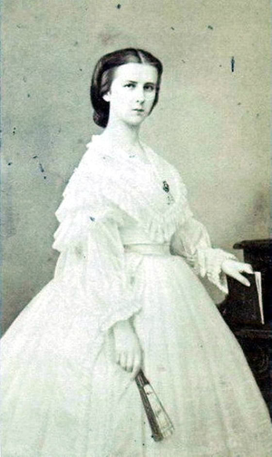 Maria, Countess of Flanders (1845-1913)